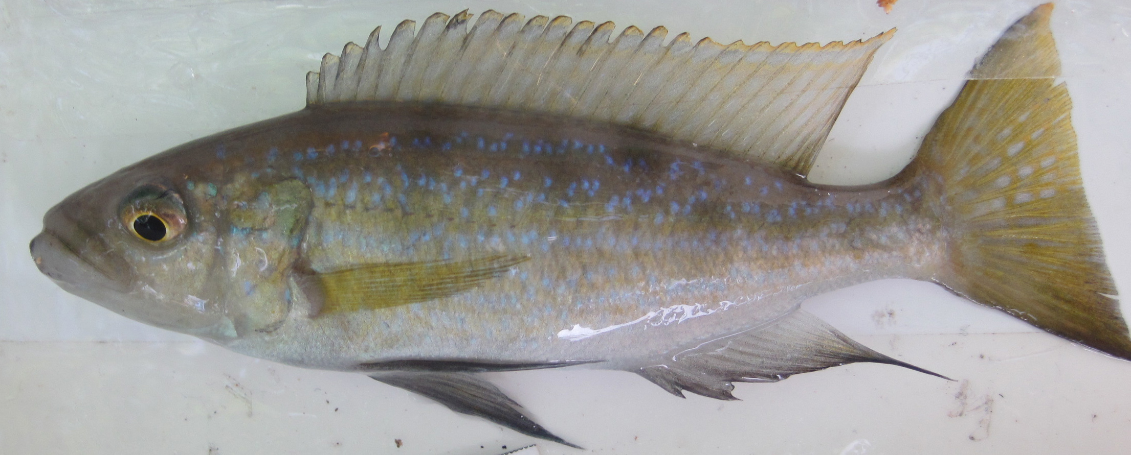 Wild catch of Perissodus microlepis (male).